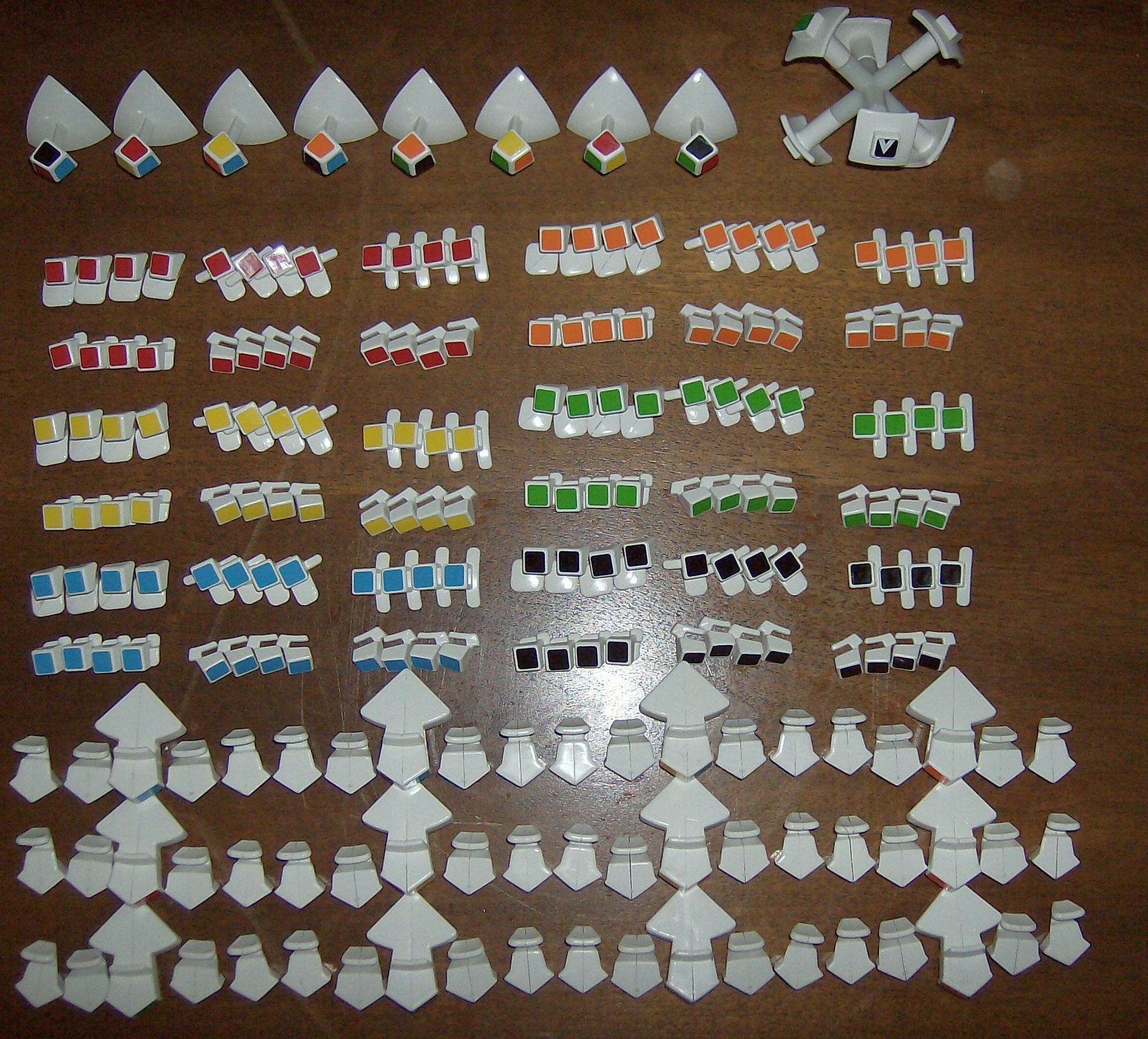 The V-Cube 7 has 6 fixed and 212 moveable pieces, same as the V-Cube 6, except that on the latter 66 of the pieces are hidden within the interior of the puzzle.